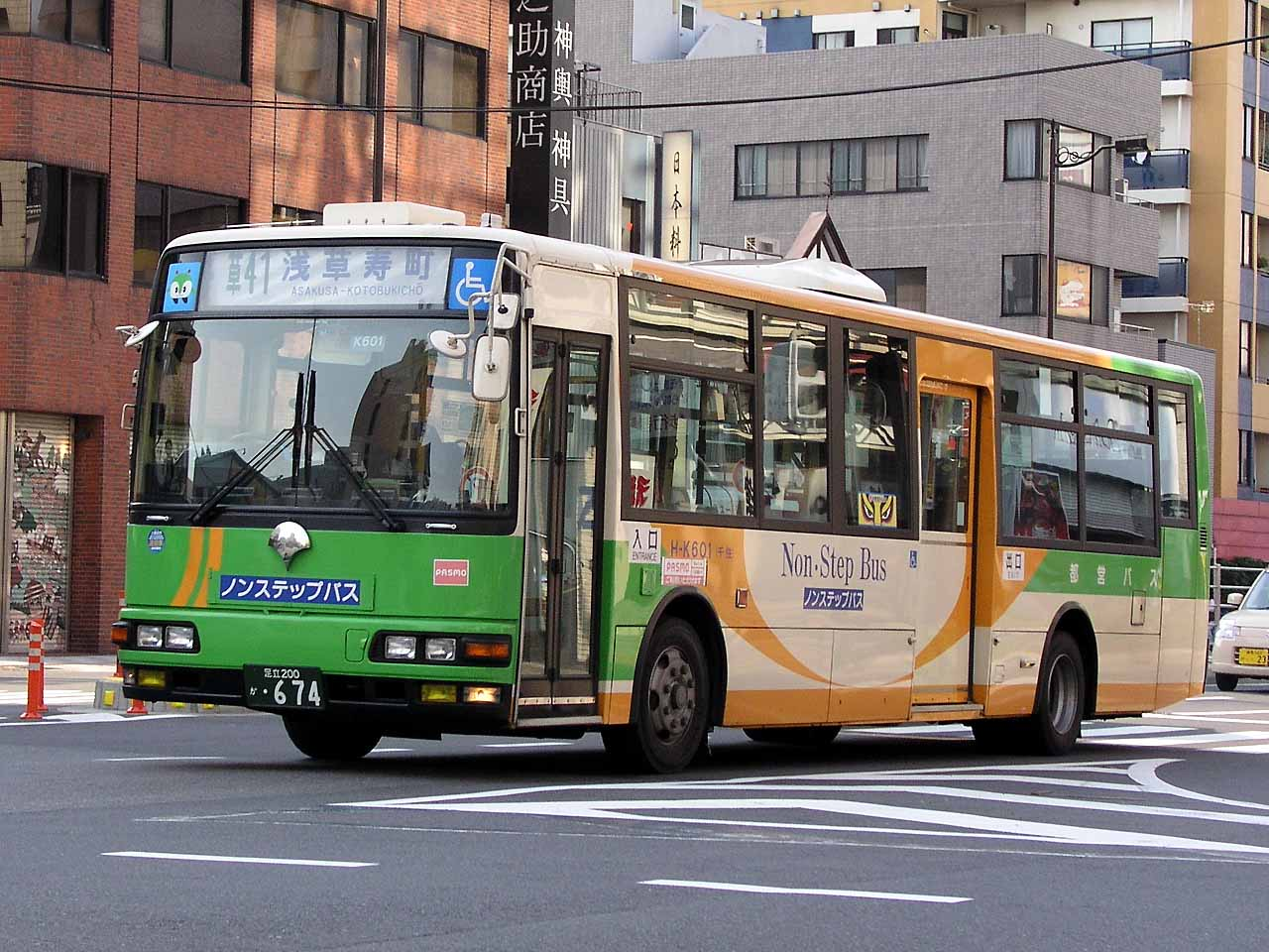 Toei Bus KUSA41（草41） route. Model: Mitsubishi Fuso Aero Midi MK Long KK-MK27HM License plate: TKA200 KA-674（足立200か・674） Place: Asakusa, Taito ward, Tokyo Japan